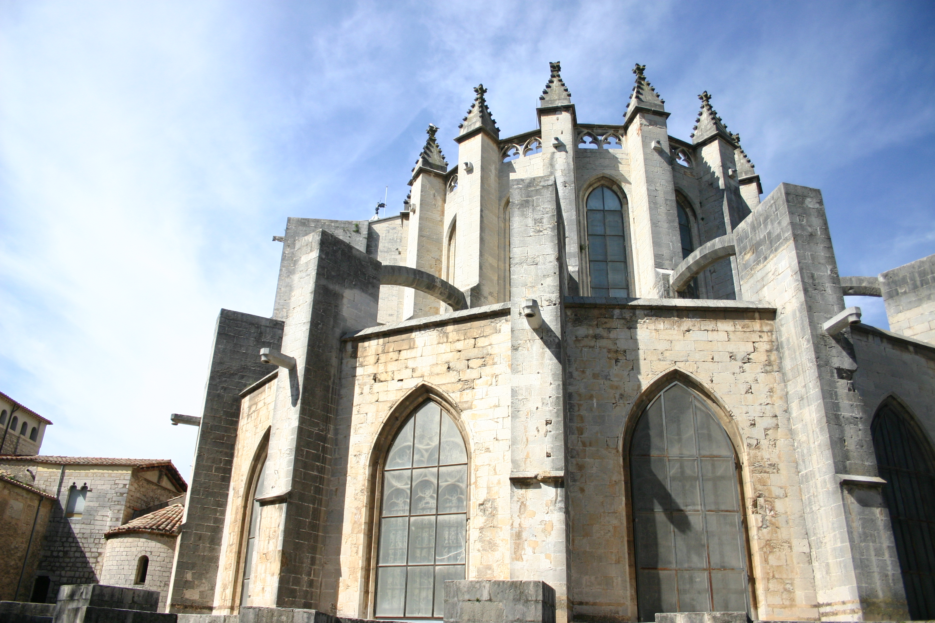 Girona's Cathedral. Girona, Catalonia (Spain)